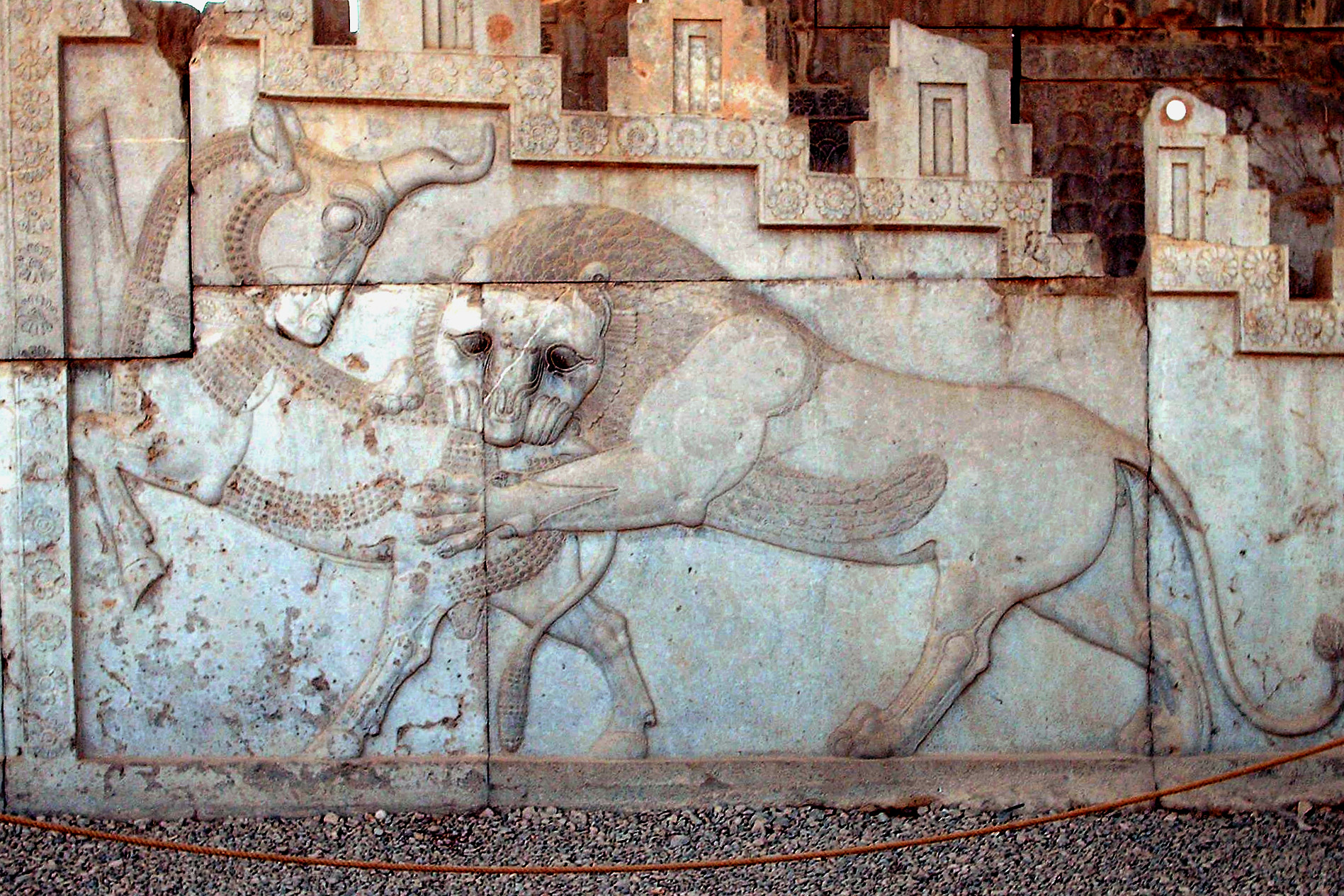 Eastern Stairway of the Apadana Picture Taken by myself Persepolis Iran April 2006